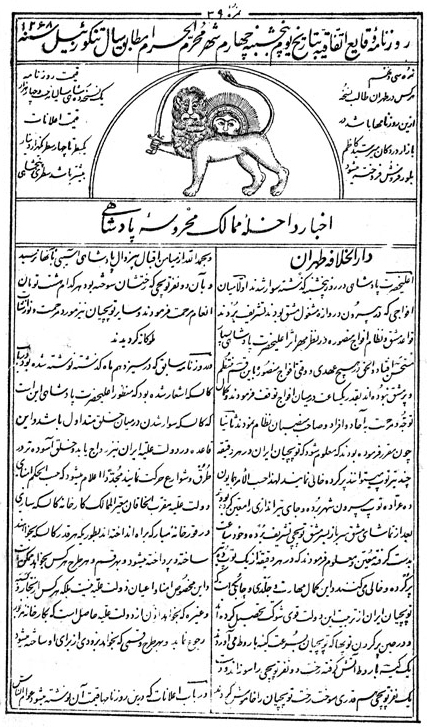 Scanned page from second iranian newspaper known as Vaqaye etefaghie